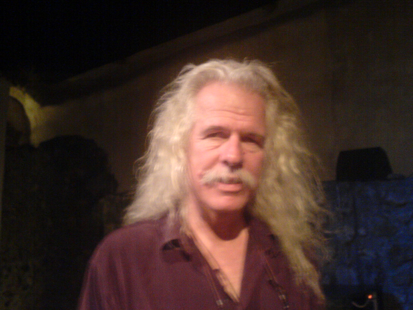 photo of the musicien Ross Daly